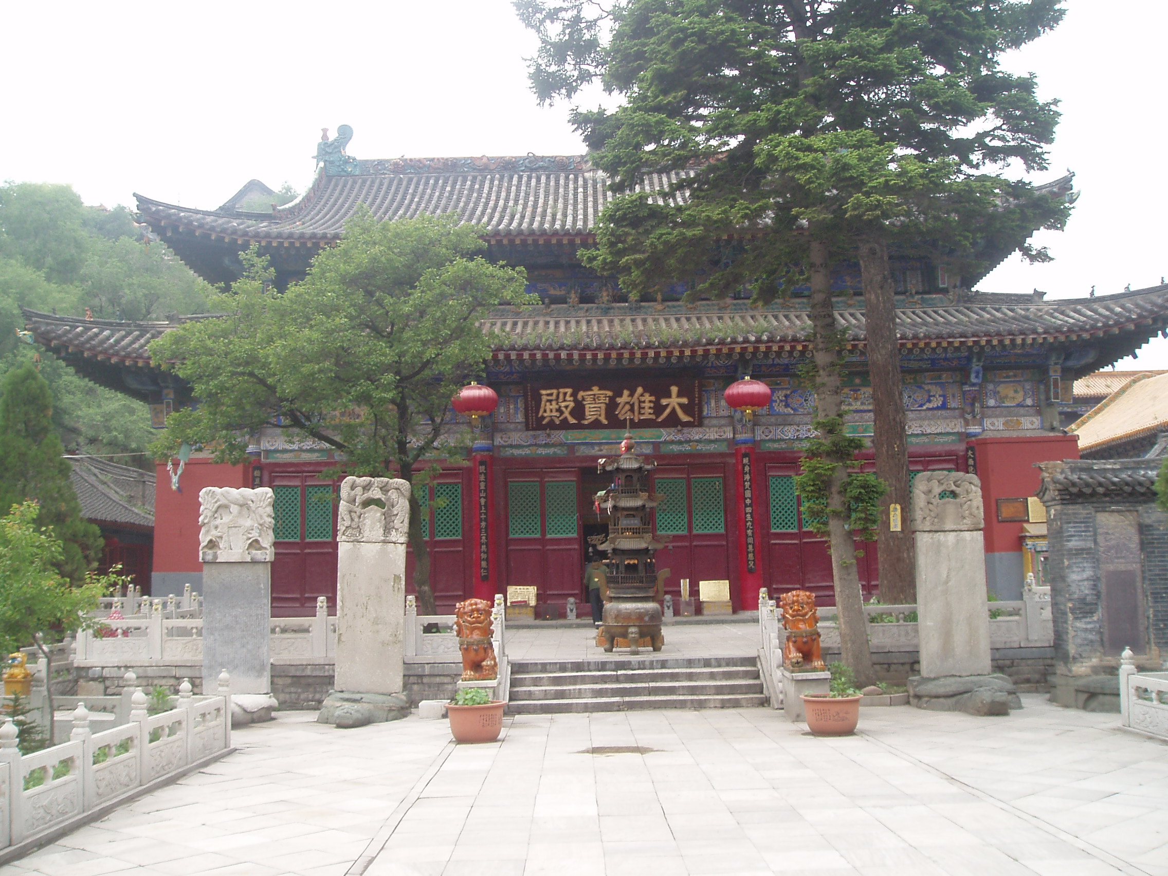 The Grand Hall at the Yuanzhao Temple in Wutaishan, China